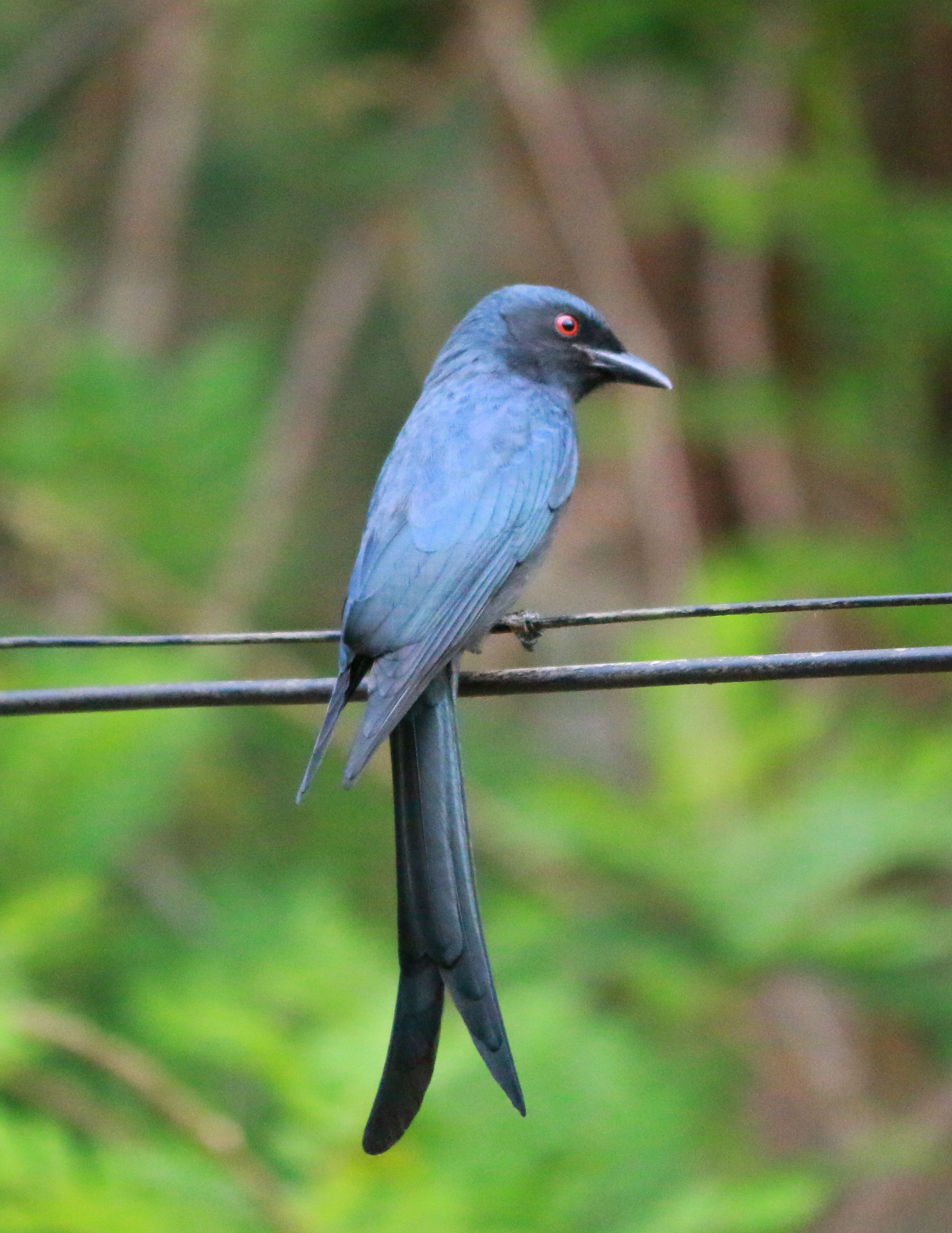 Ashy drongo കാക്കത്തമ്പുരാൻ, കാക്കത്തമ്പുരാട്ടി, പാലക്കാട് ജില്ലയിലെ കൂറ്റനാട് നിന്നും എടുത്ത ചിത്രം